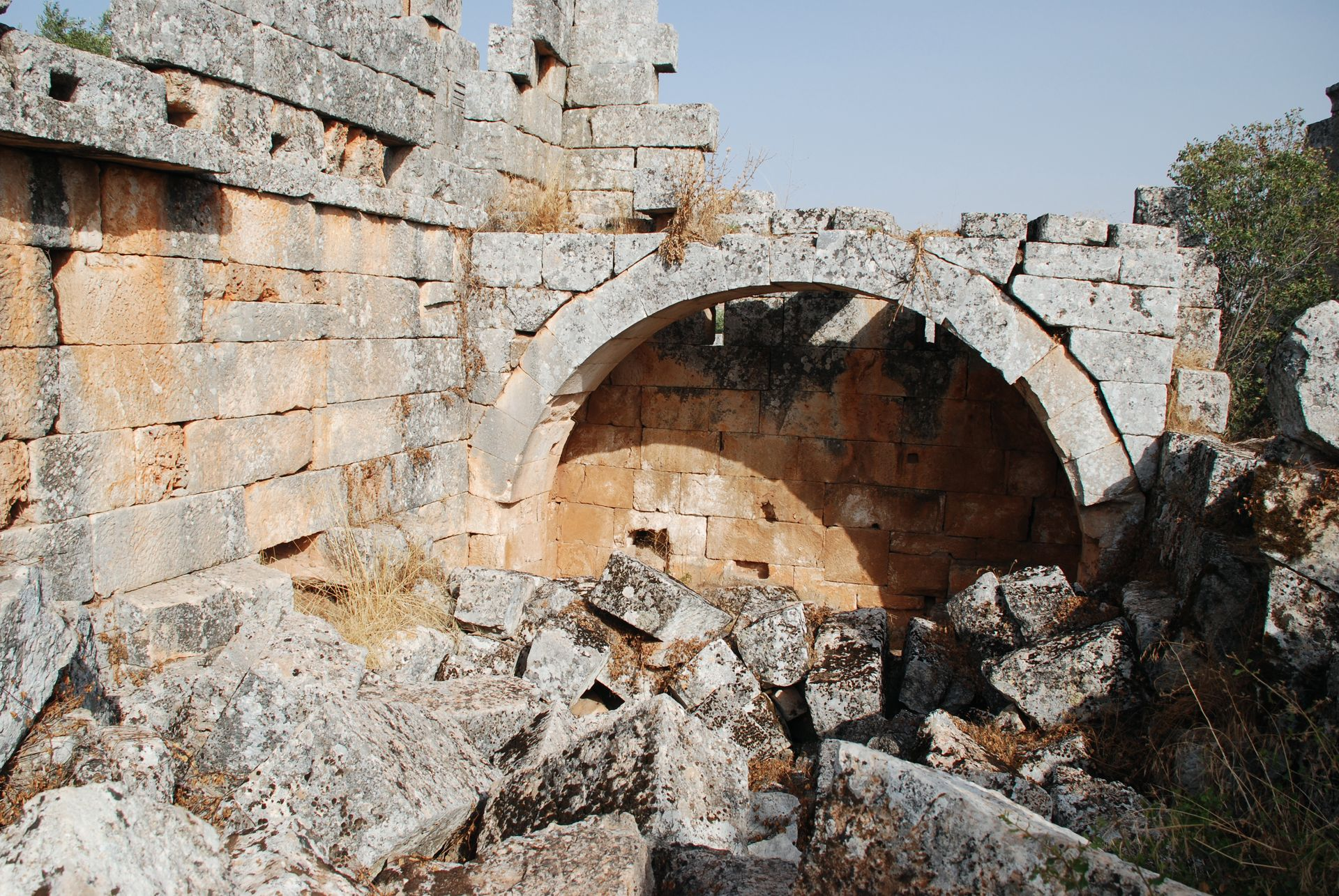 Al-Bara, dead city in Syria, grapes squeezing building